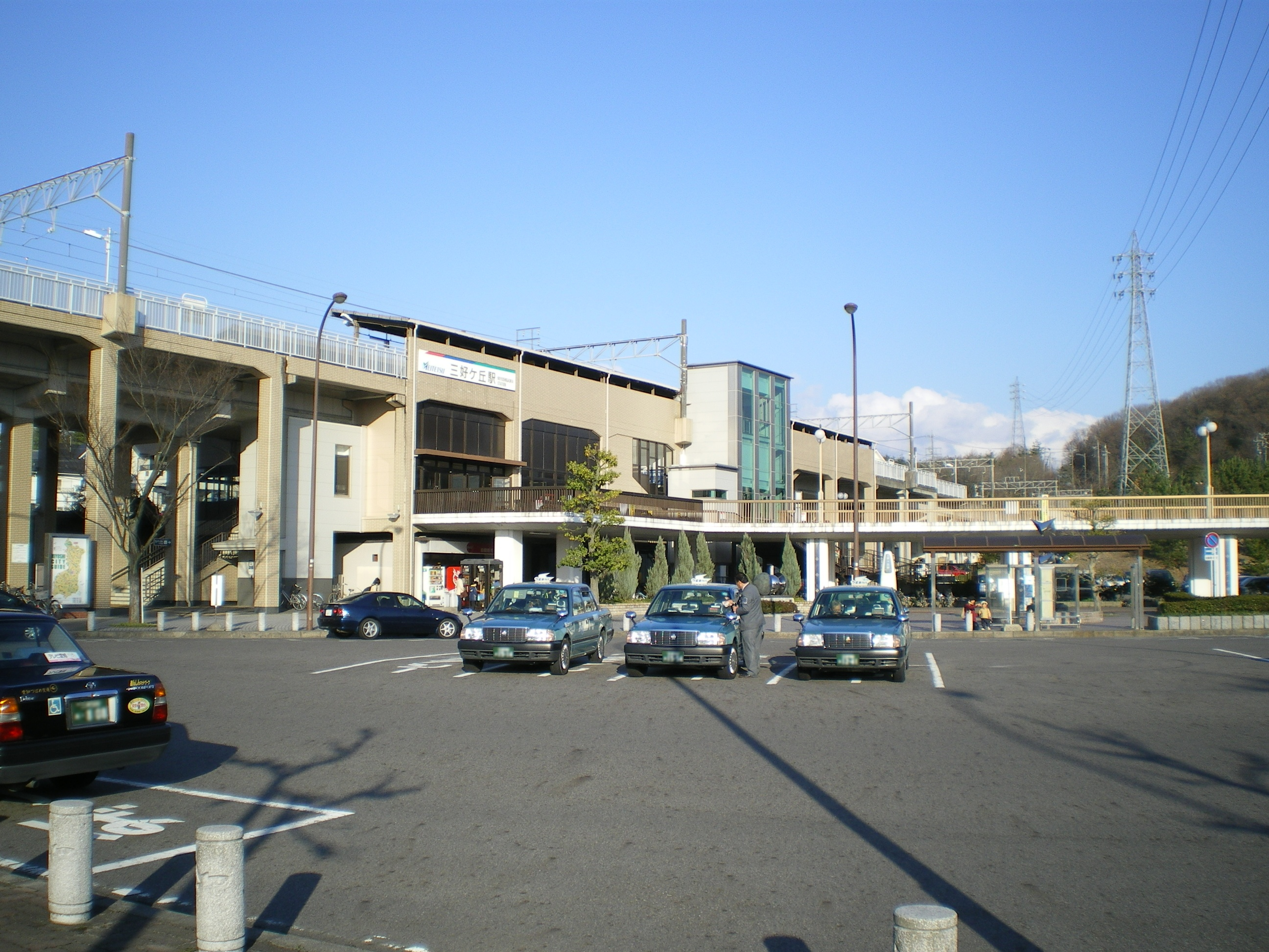 Nagoya Railroad Toyota Line Miyoshigaoka Station Plaza